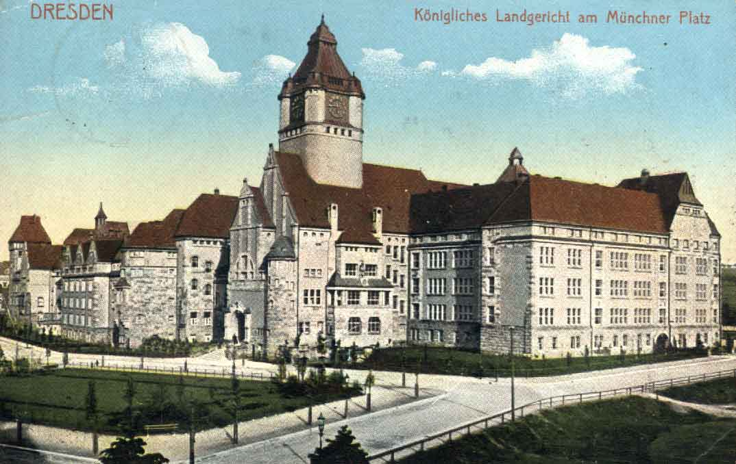 Dresden Südvorstadt Plauen former Landgericht, Münchner Platz (postcard)